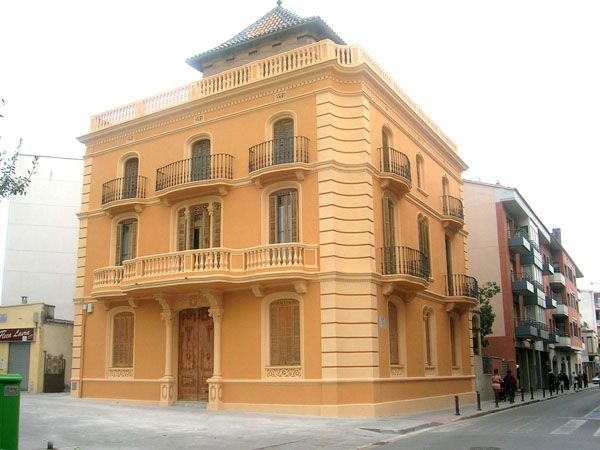 House